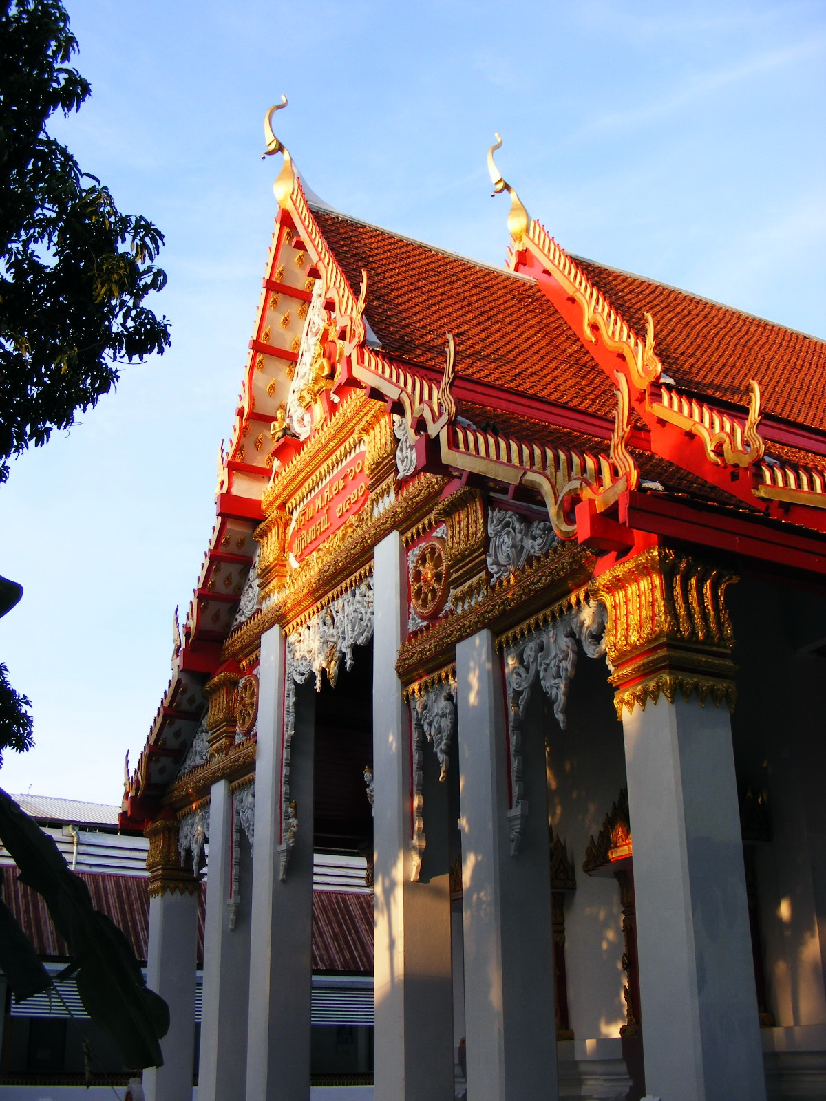 Ubosot of Wat Klongpho .in Ban Ko subdistrict, Mueang Uttaradit, Uttaradit Province, Thailand. on February 10, 2008.